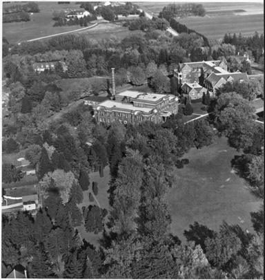 Aerial photograph of the buildings and grounds of MacDonald Institute, which was part of the Agricultural College in Guelph, Ontario